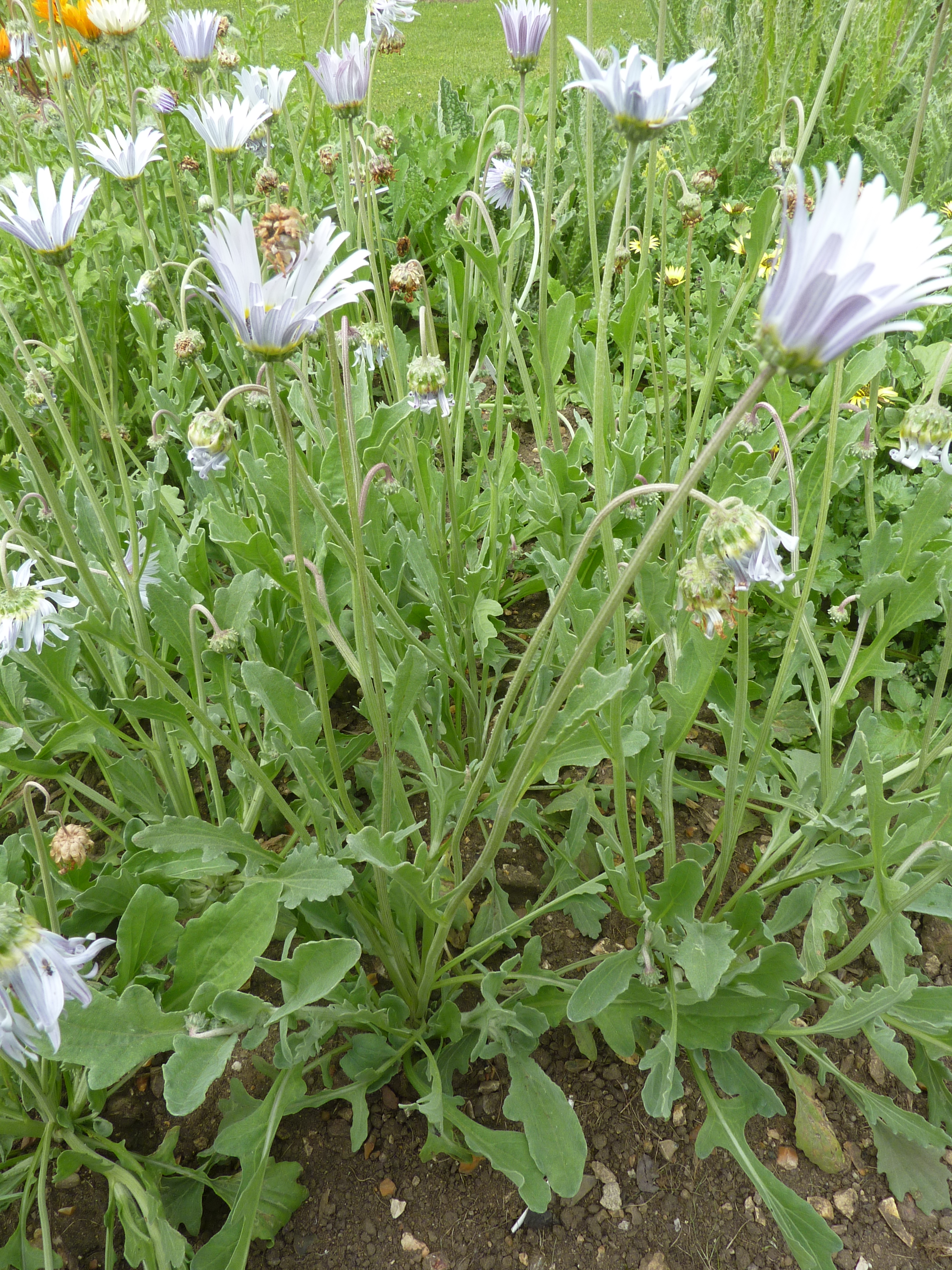 Taken in the Cambridge University Botanic Garden